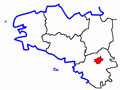 Description: Map for localisazion of cantons of Bretagne, (now Pays-de-Loire), region in France Source: made by Hervé Tigier in april 2005 from another large map (published in 1990)